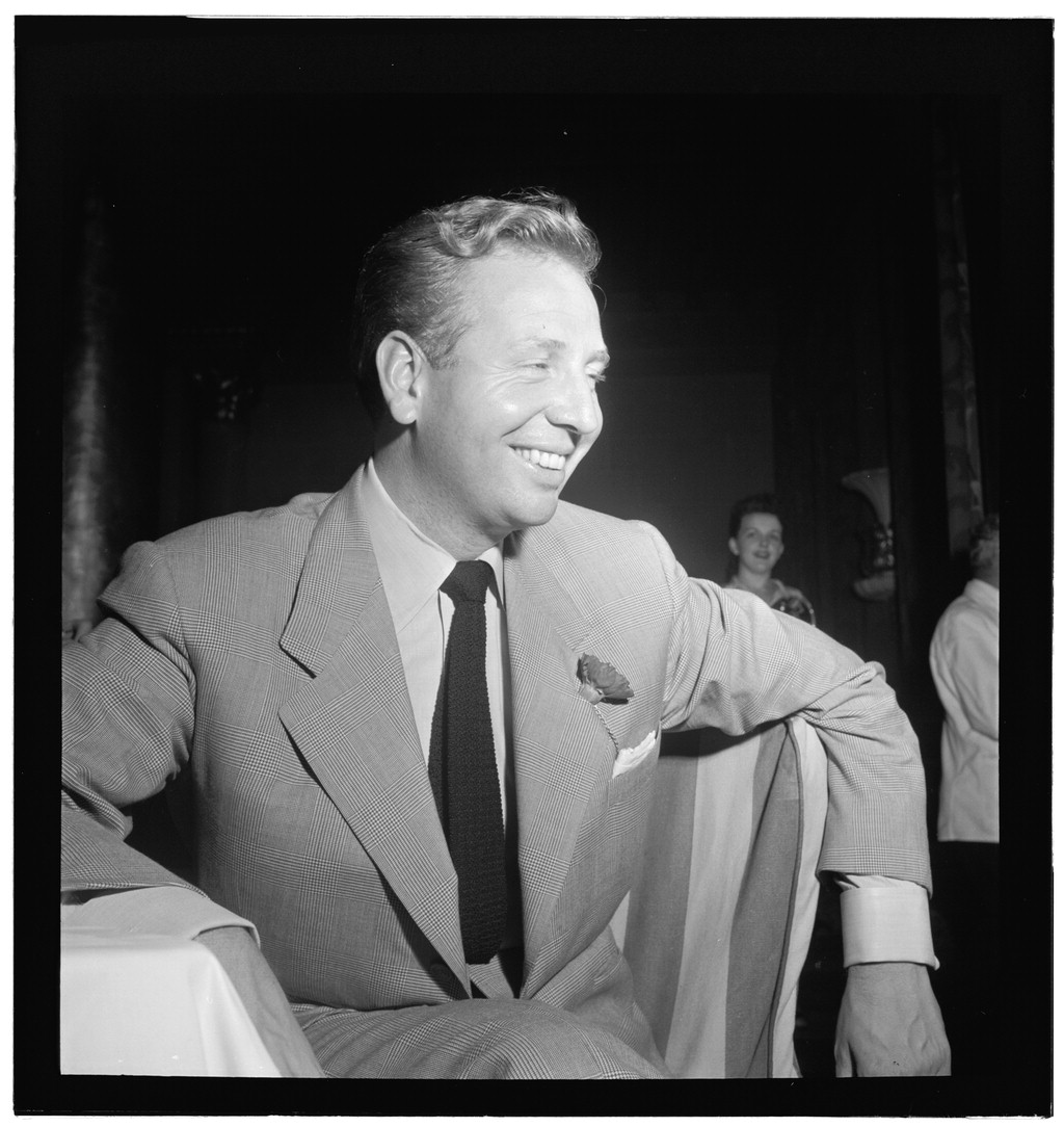 Gottlieb, William P., 1917-, photographer. [Portrait of Skitch Henderson, Eddie Condon's, New York, N.Y., ca. Aug. 1947] 1 negative : b&w ; 2 1/4 x 2 1/4 in. Notes: Gottlieb Collection Assignment No. 287 Reference print available in Music Division, Library of Congress. Purchase William P. Gottlieb Forms part of: William P. Gottlieb Collection (Library of Congress). Subjects: Henderson, Skitch, 1918- Jazz musicians--1940-1950. Eddie Condon's Format: Portrait photographs--1940-1950. Film negatives--1940-1950. Rights Info: Mr. Gottlieb has dedicated these works to the public domain, but rights of privacy and publicity may apply. Repository: (negative) Library of Congress, Prints & Photographs Division, Washington D.C. 20540 USA, (reference print) Library of Congress, Music Division, Washington D.C. 20540 USA, Part Of: William P. Gottlieb Collection (DLC) 99-401005 General information about the Gottlieb Collection is available at Persistent URL: Call Number: LC-GLB23- 0404 This work is from the William P. Gottlieb collection at the Library of Congress. Rights and restrictions.In accordance with the wishes of William Gottlieb, the photographs in this collection entered into the public domain on February 16, 2010.